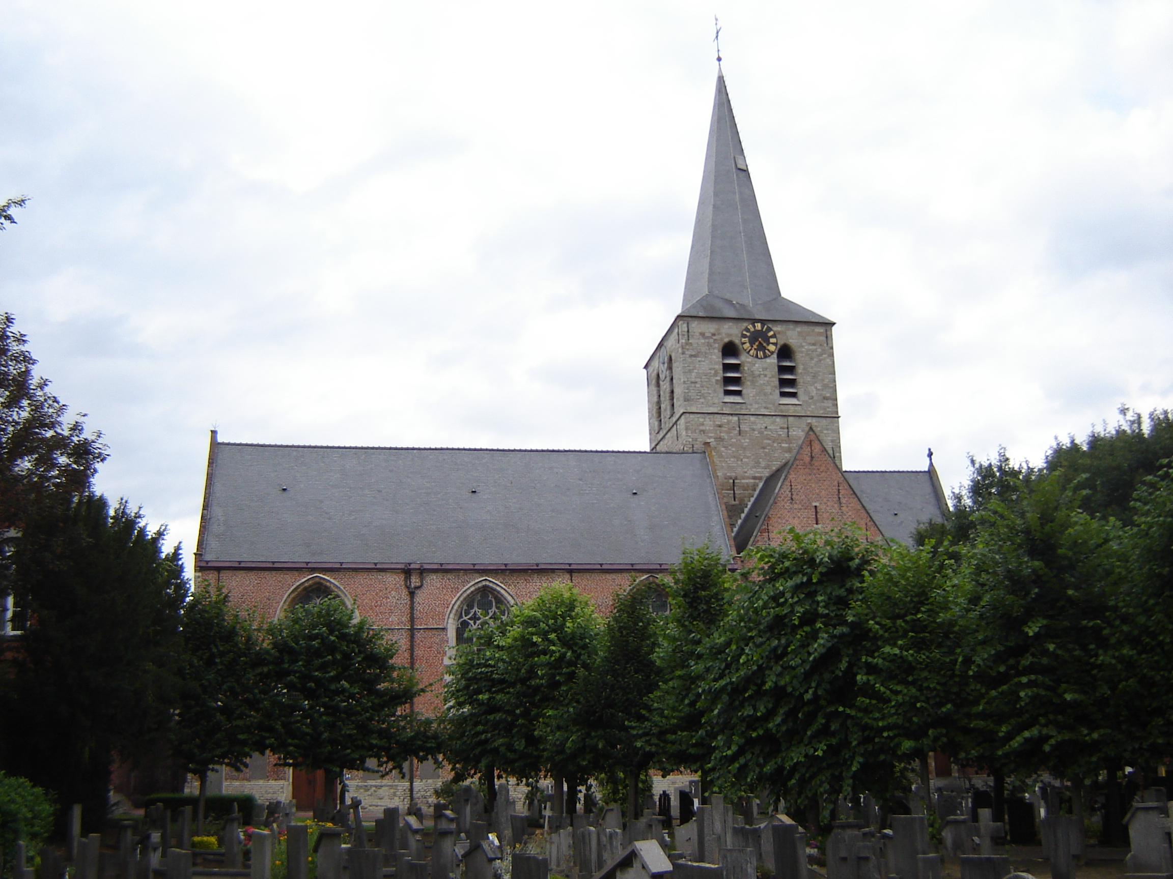 Church of Saint Maurice and Companions in Nevele. Nevele, East Flanders, Belgium.